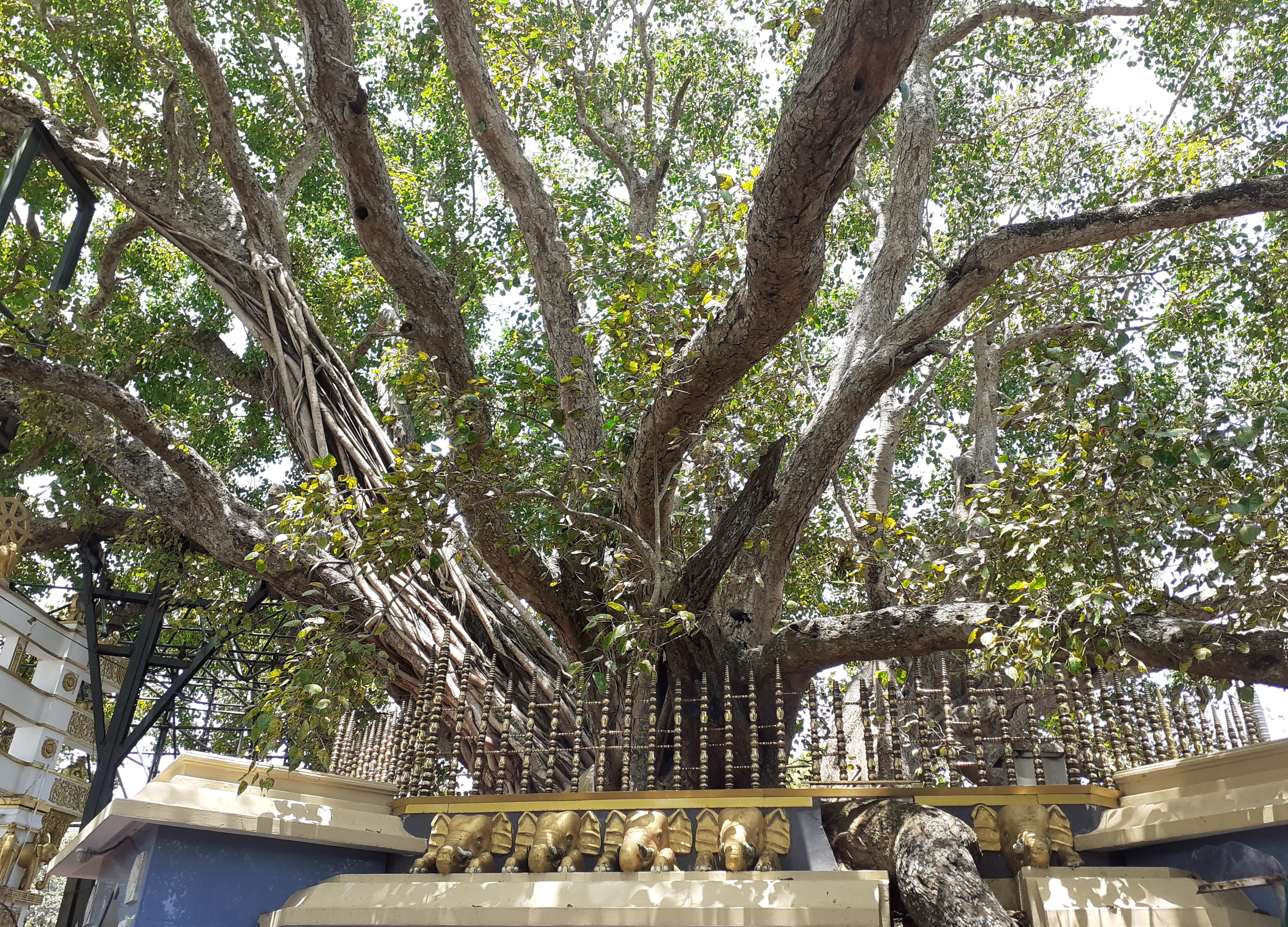 Kalutara Bodhiya is an old Bodhi tree which is identified as one of the 32 saplings of Jaya Sri Maha Bodhi which was planted during the reign of king Devanampiyatissa in the 2nd century BC at Anuradhapura, Sri Lanka.